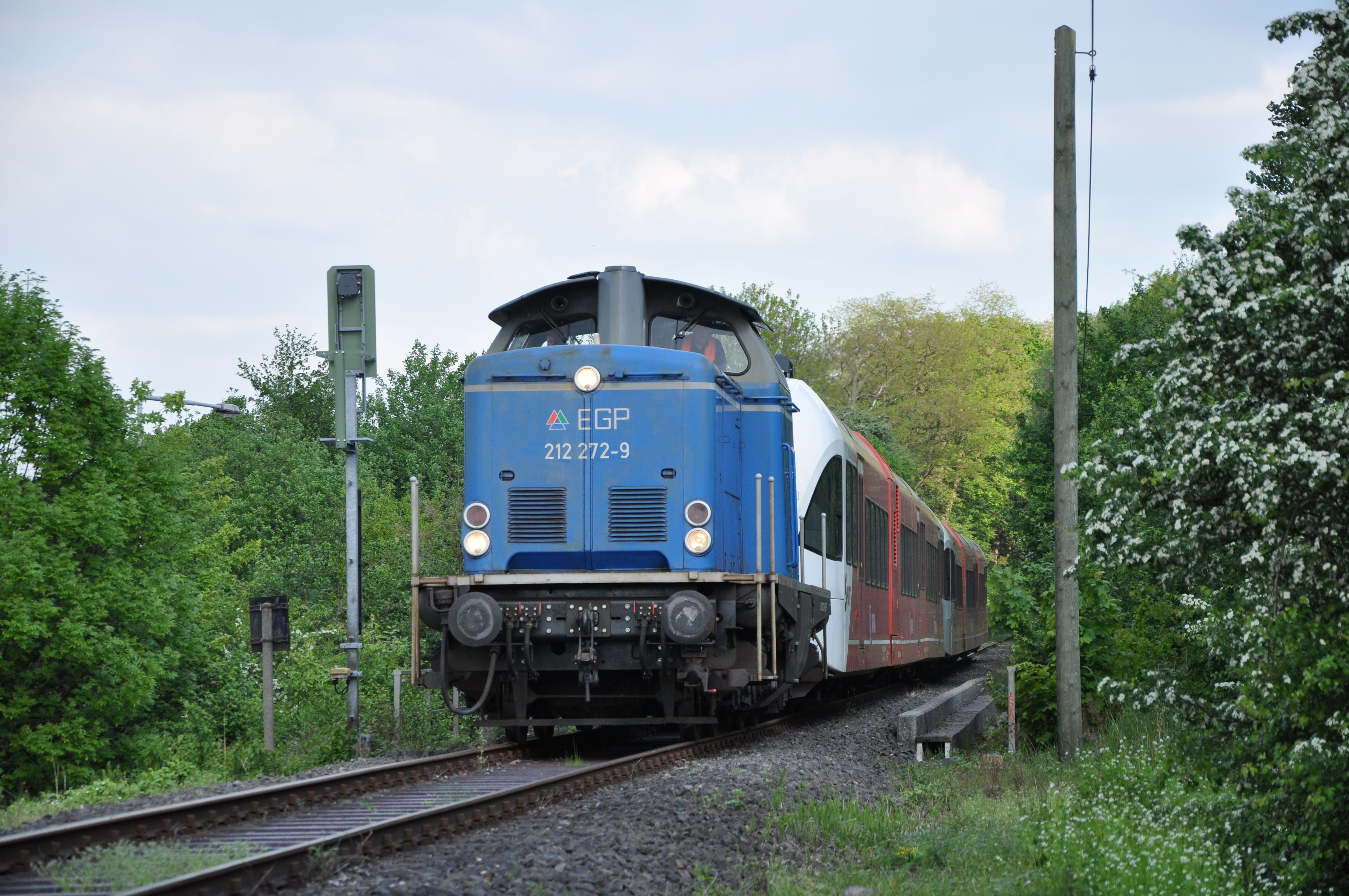 An EGP diesel engine is pulling two Arriva-EMU to Talbot in Aachen.